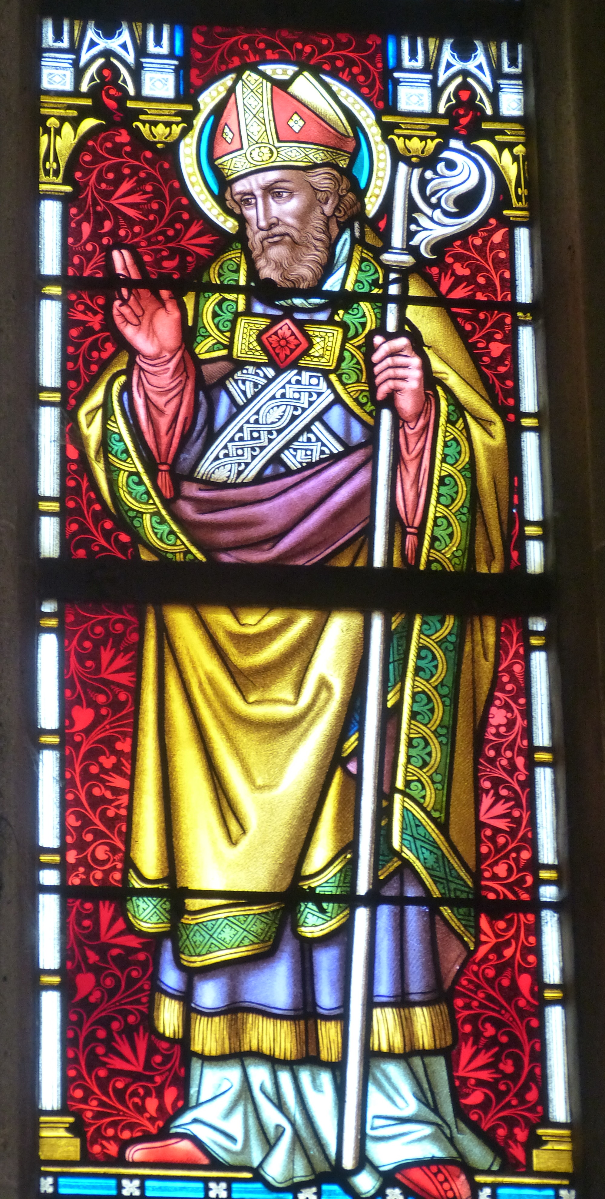 Thalheim bei Wels ( Upper Austria ). Saint Stephen parish church ( 15th century ) - Stained glass window ( 1883 ): Consecration of the church - Saint Altmann of Passau.